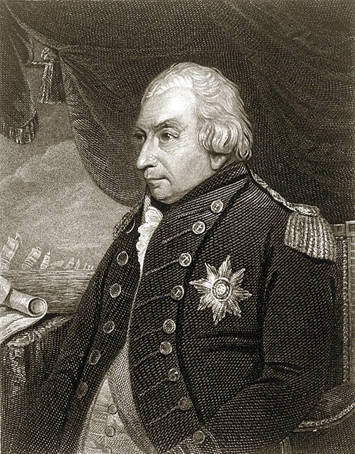 Sir John Jervis KB, Earl of St. Vincent, 1. Viscount St. Vincent, (1735–1823), britischer Admiral